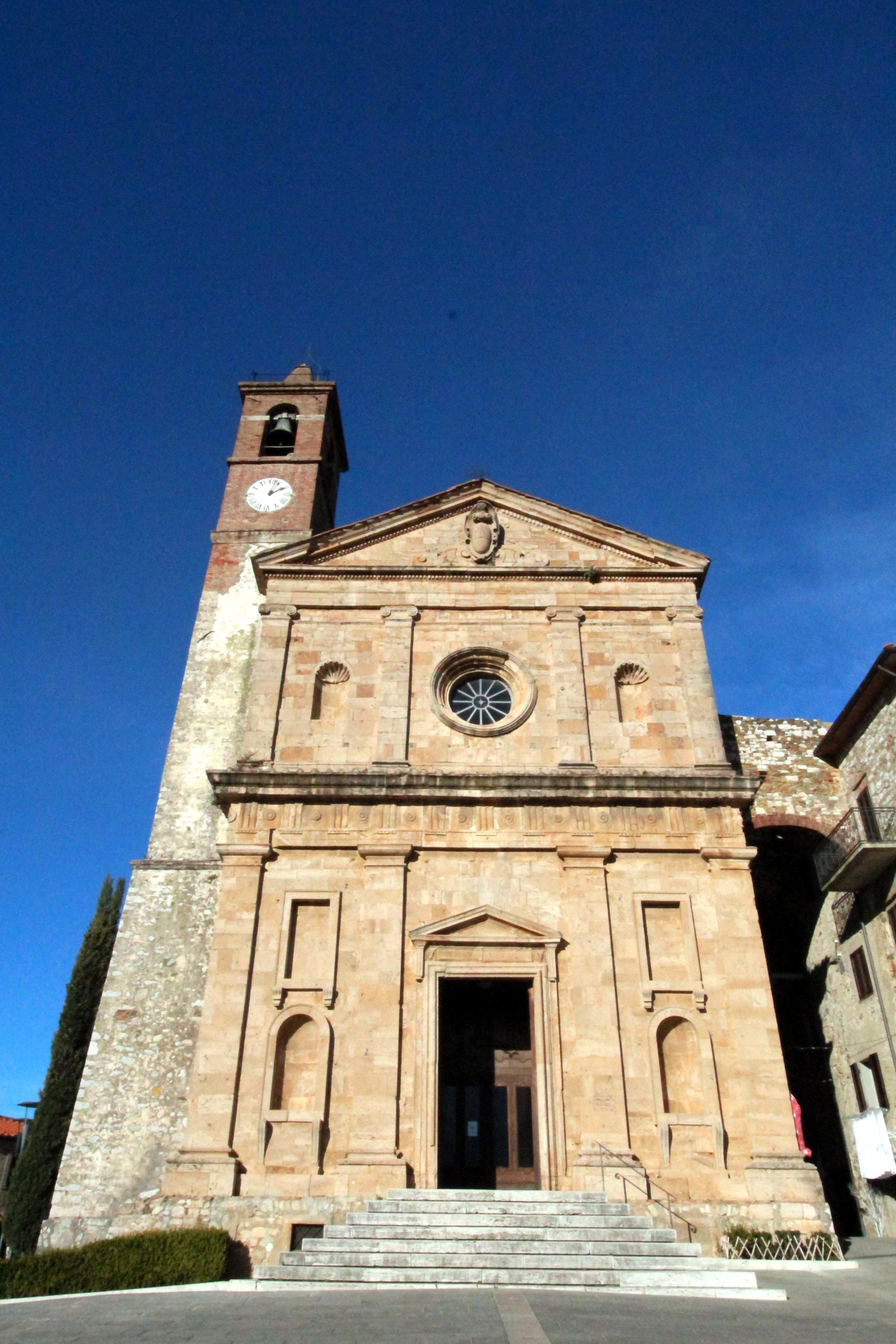 Church of San Biagio in Caldana, hamlet of Gavorrano, Maremma, Province of Grosseto, Tuscany, Italy. Build 1575.